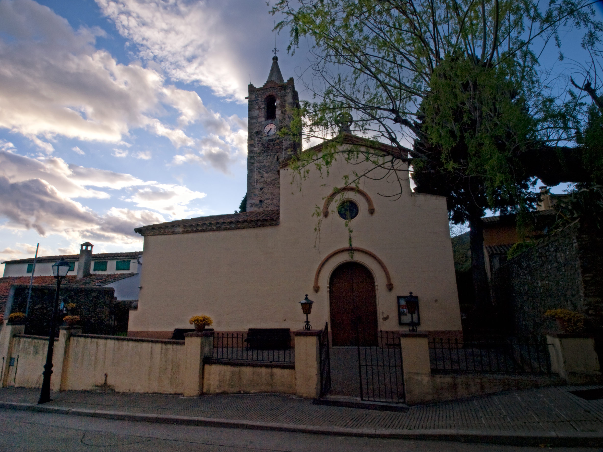 Sant Joan church of Campins